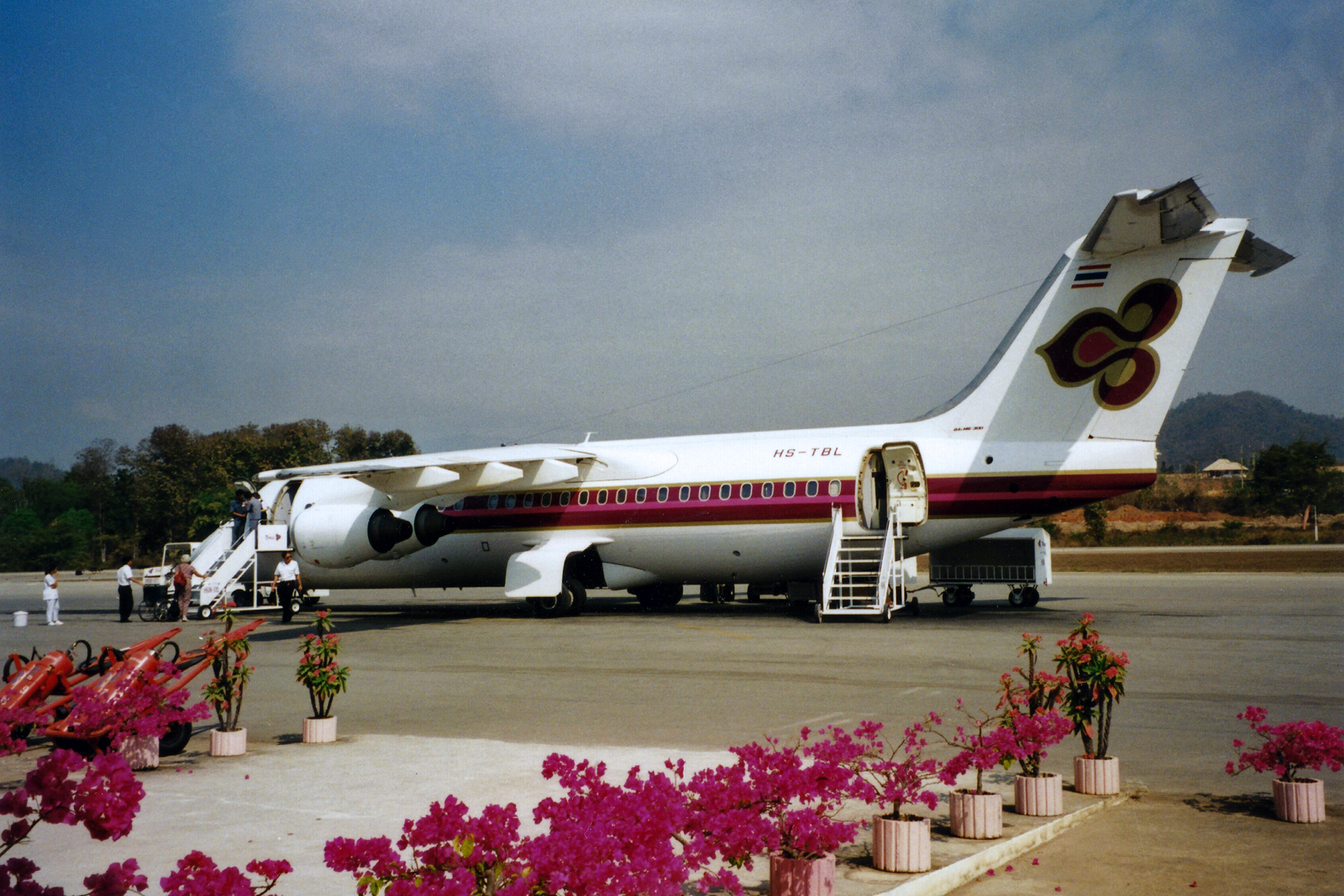 Mae Hong Son,Thailand 3.1996